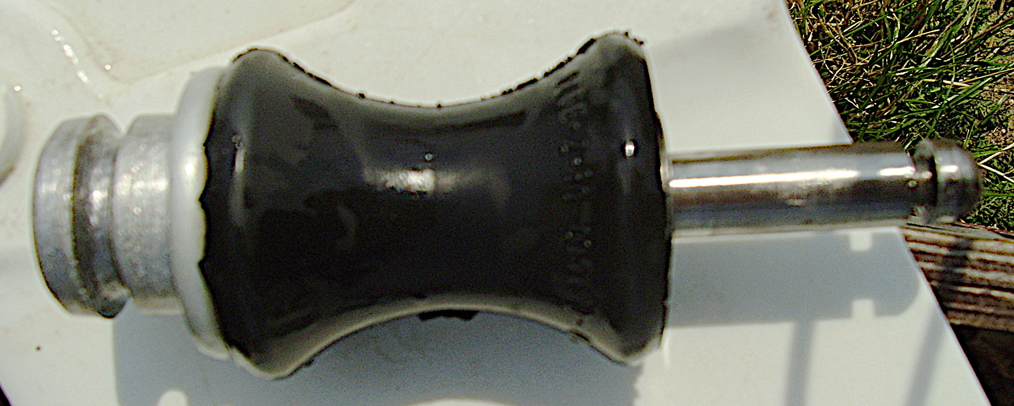 A universal joint for windsurfing. The universal joint connects the rig (sail, mast, and boom) to the board.